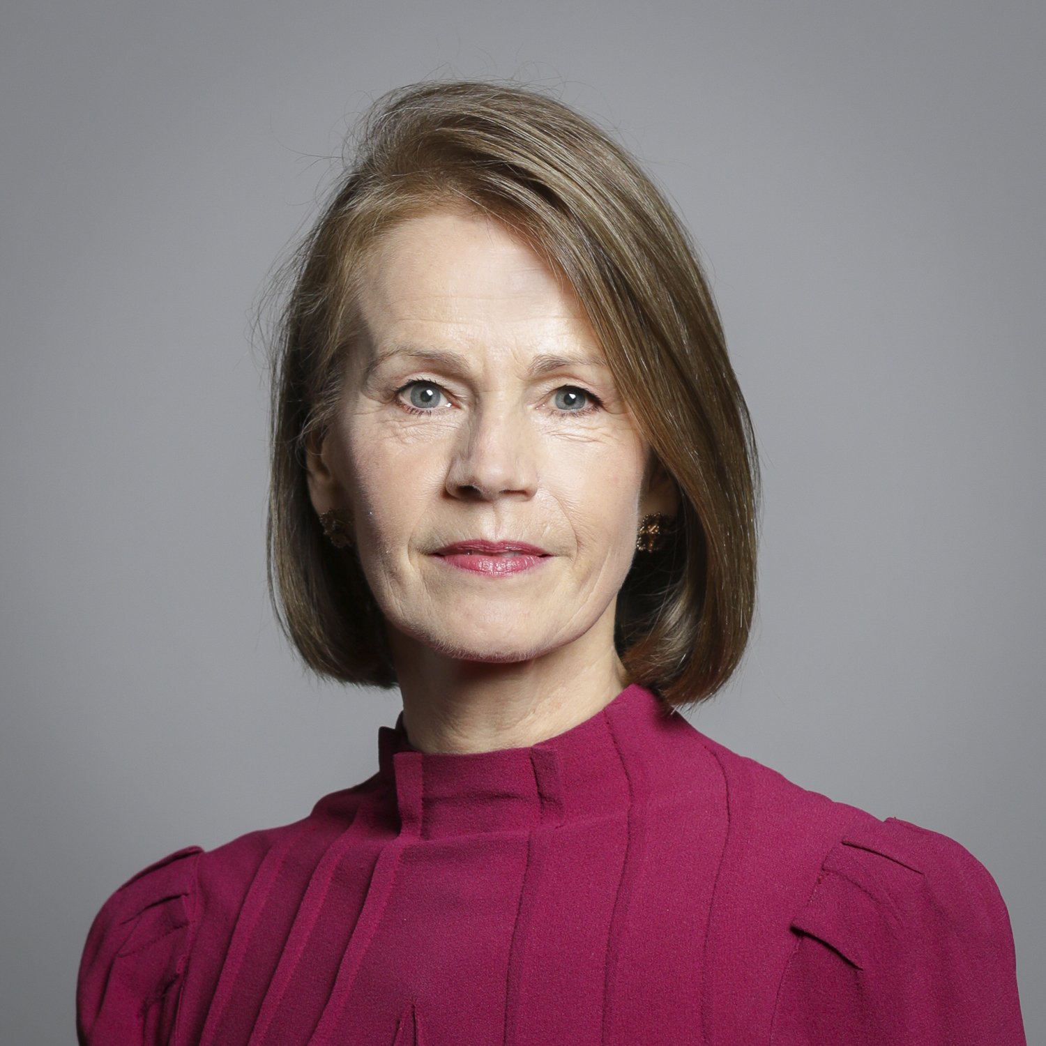 Official portrait of Baroness Bull 1×1 portrait of Baroness Bull